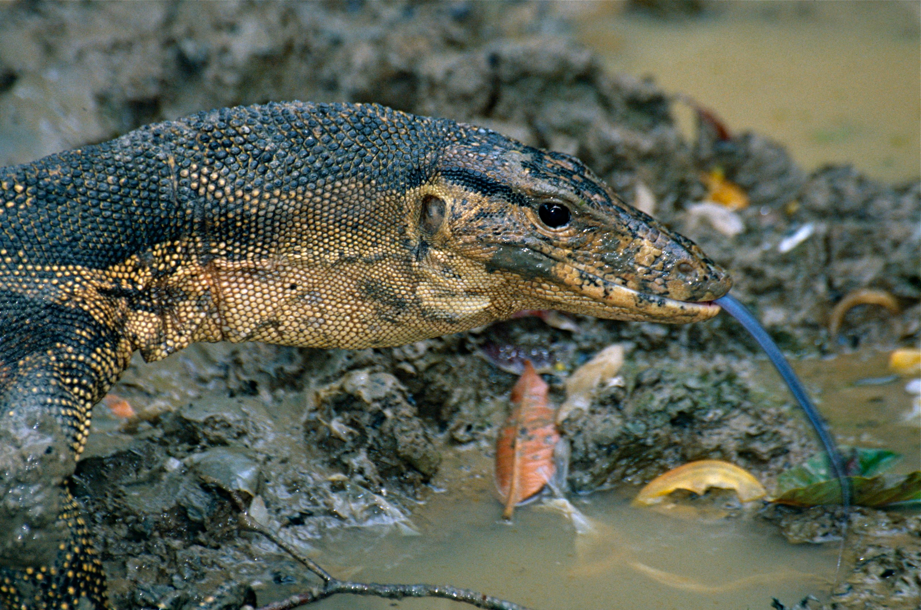 Uncle Tan's Wildlife Camp, Sungai Kinabatangan, Sabah, MALAYSIA Scanned slide from 2001